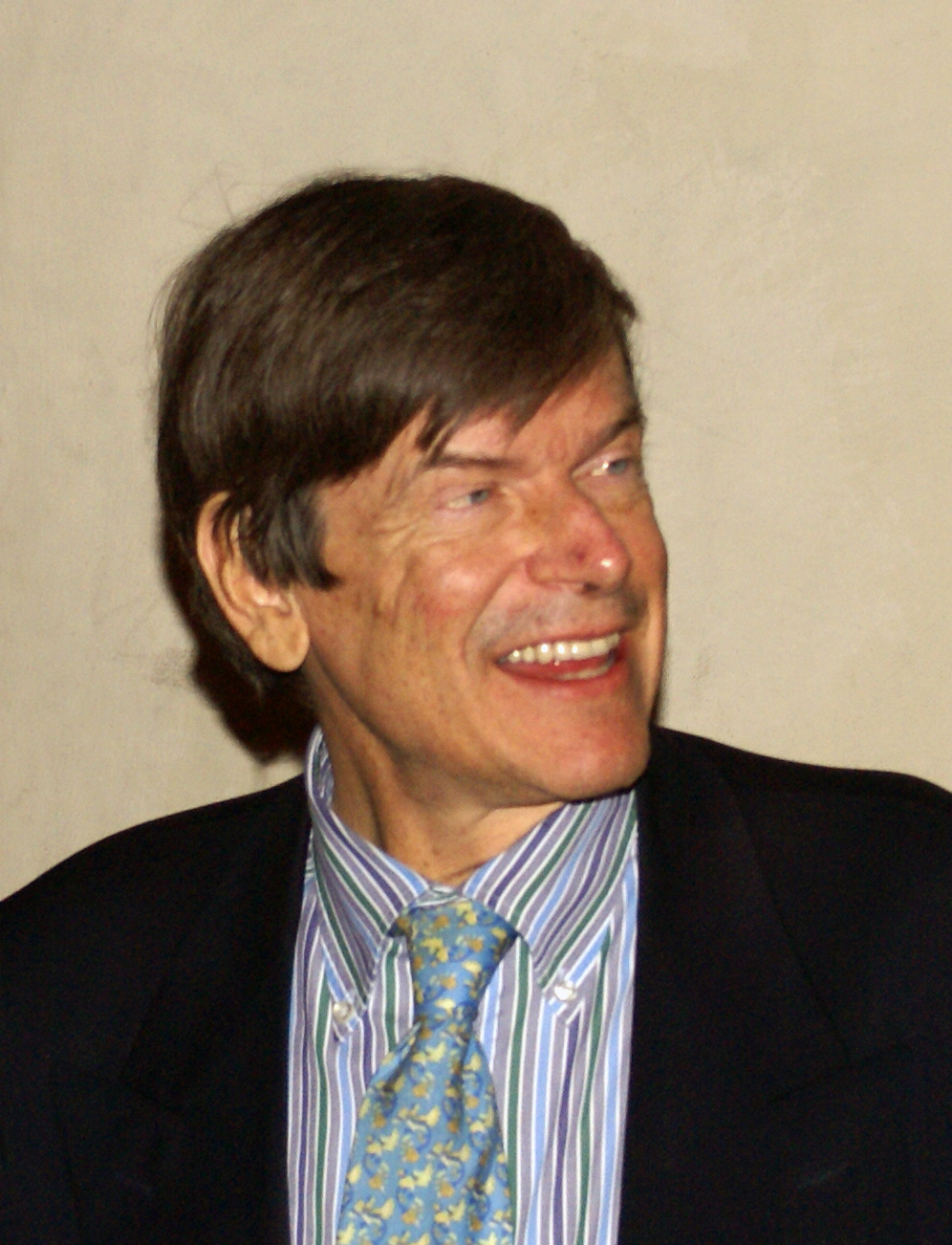 Eduardo Ibáñez López-Dóriga, Spanish diplomat.